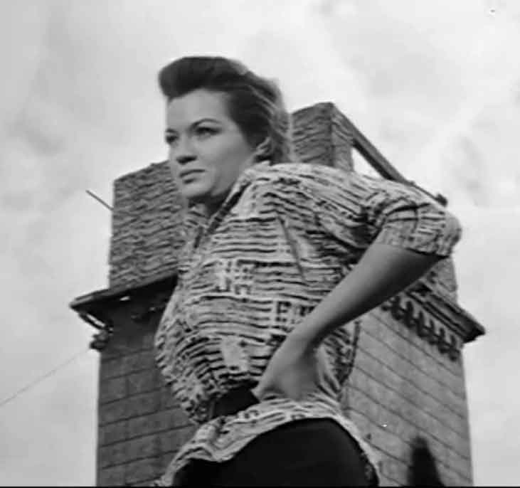 Screenshot from trailer for China Gate (Samuel Fuller, 1957)